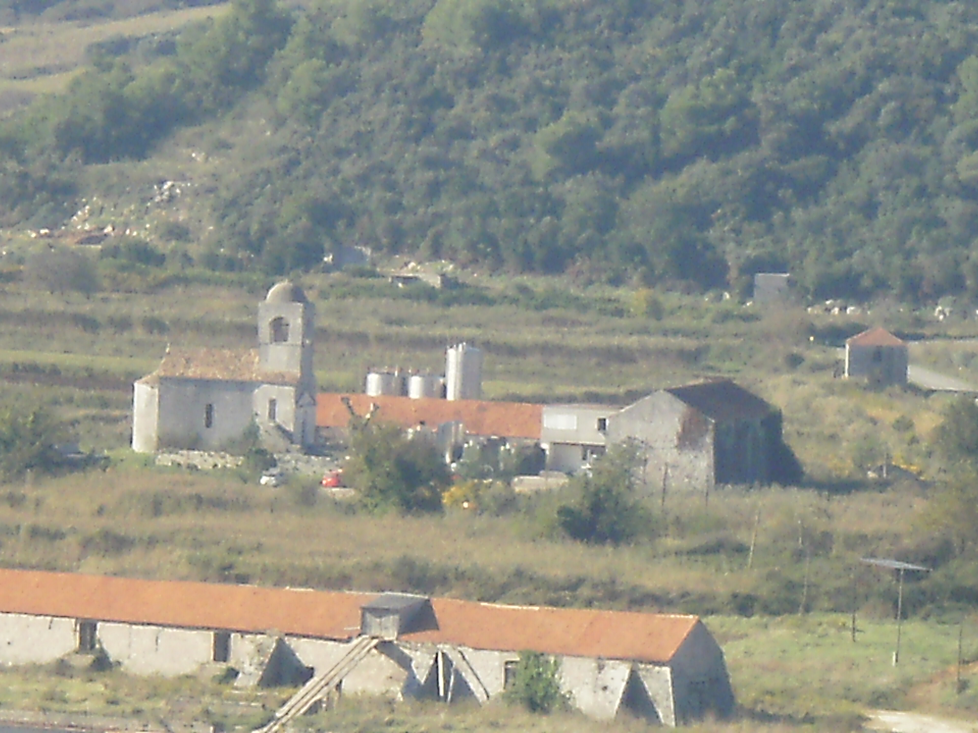 Our Lady of Lužine church in Ston OLYMPUS DIGITAL CAMERA